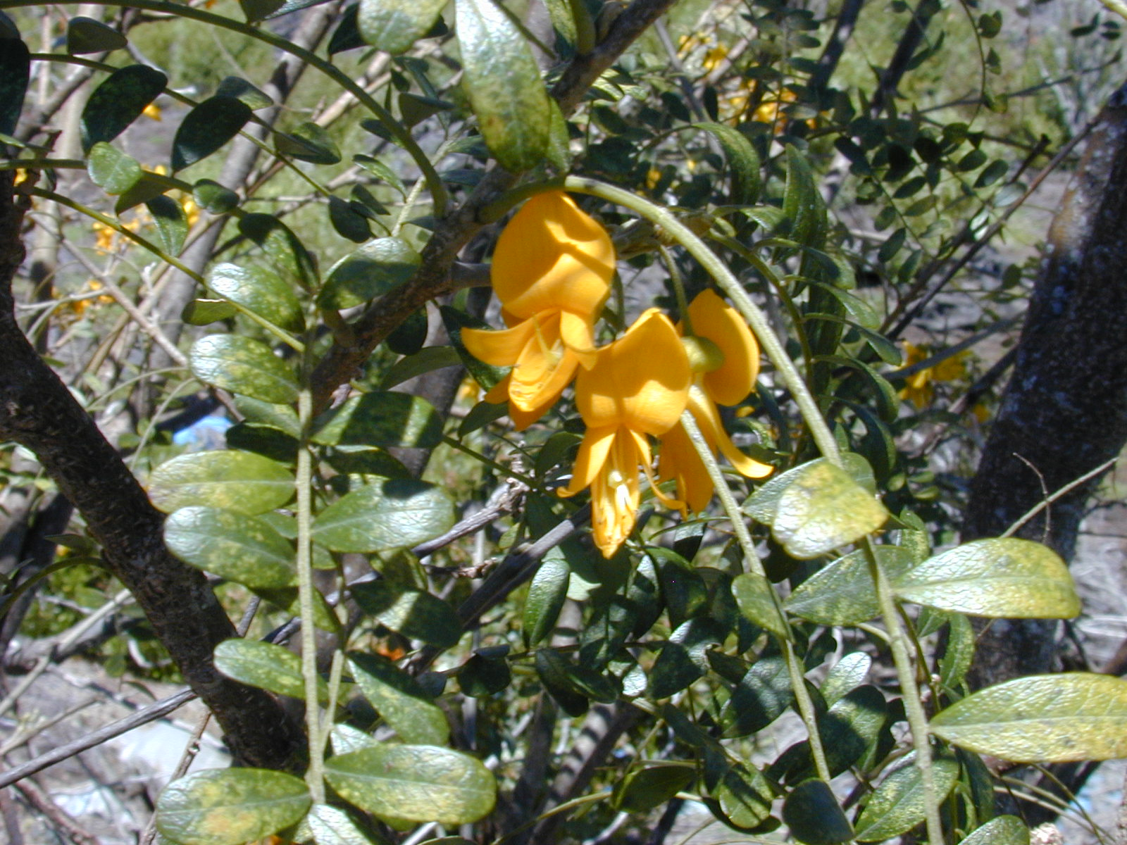 Sophora chrysophylla (flowers and leaves). Location: Maui, Auwahi